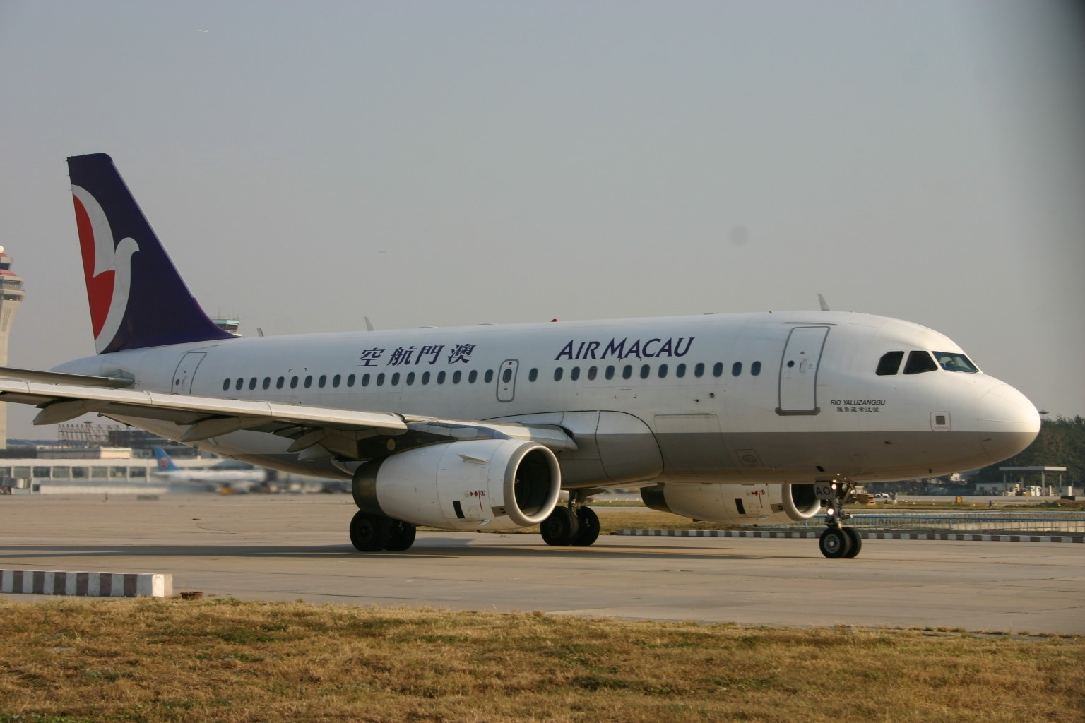 At Beijing Capital